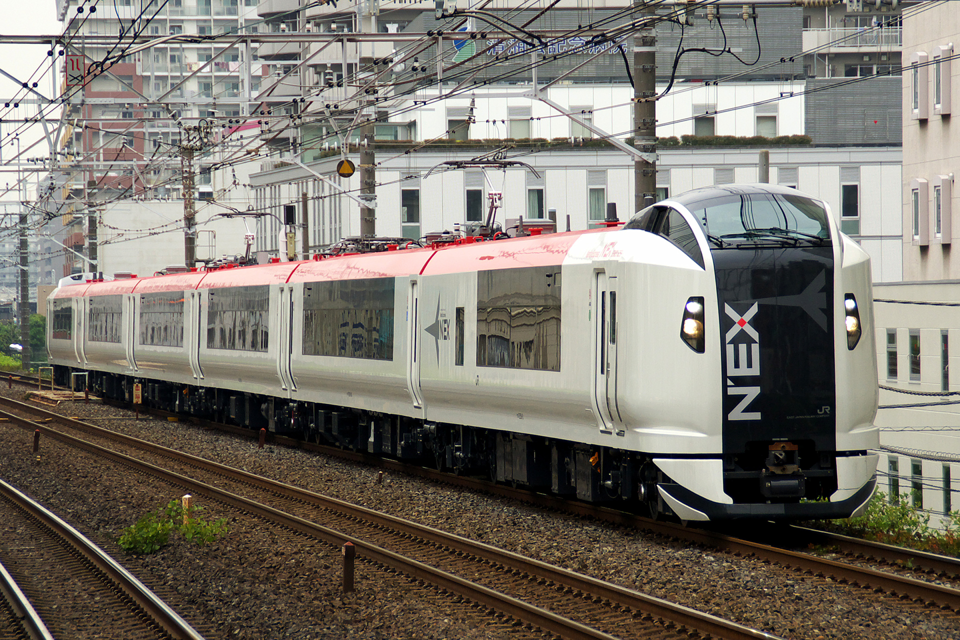 JR East E259 series EMU for "Narita Express", Narita Airport access train.